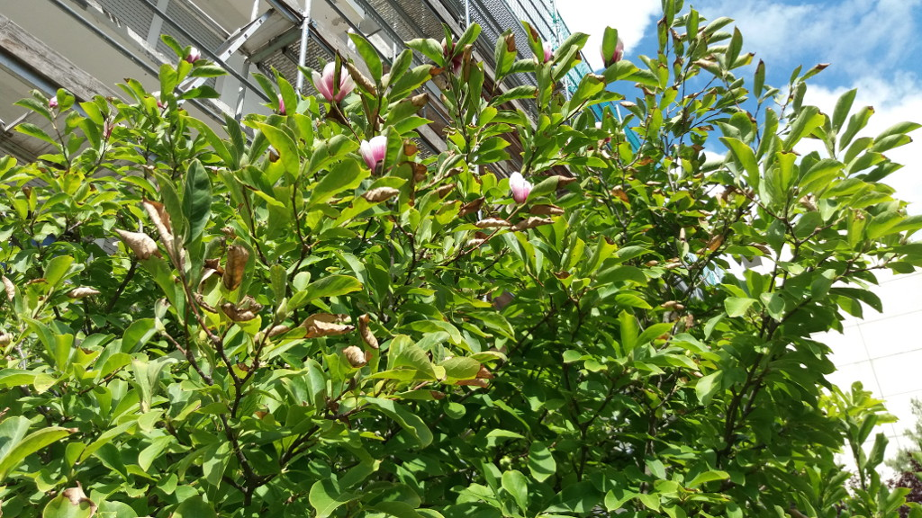 Second blossom of Magnolia × soulangeana in August